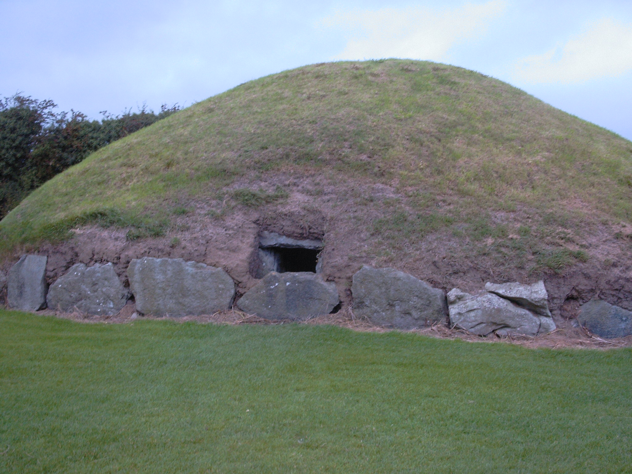 Hügelgrab im Knowth-Areal (Meath, Irland)